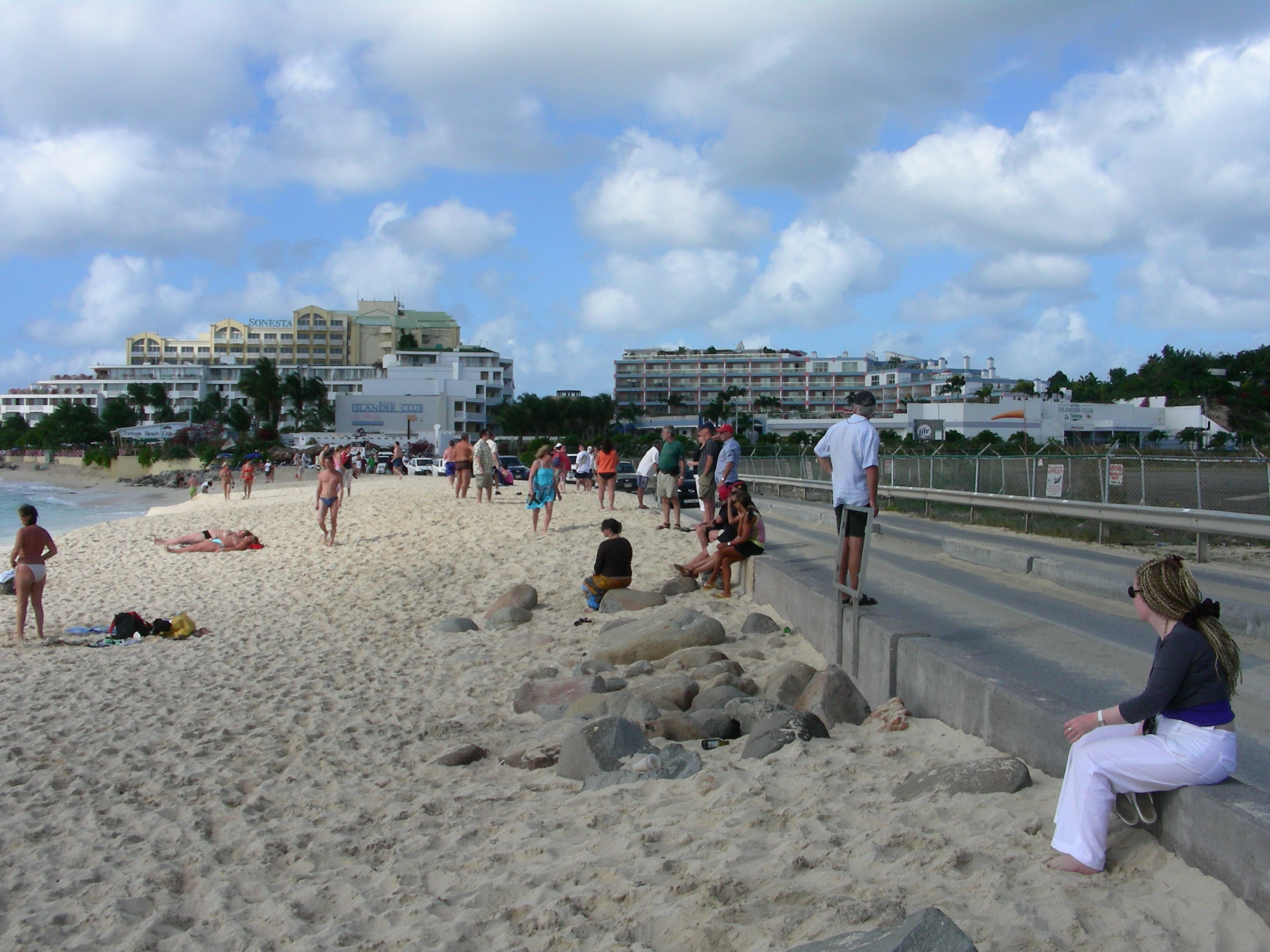 Maho Beach, near Princess Juliana Airport, Caribbean island of Saint Martin.